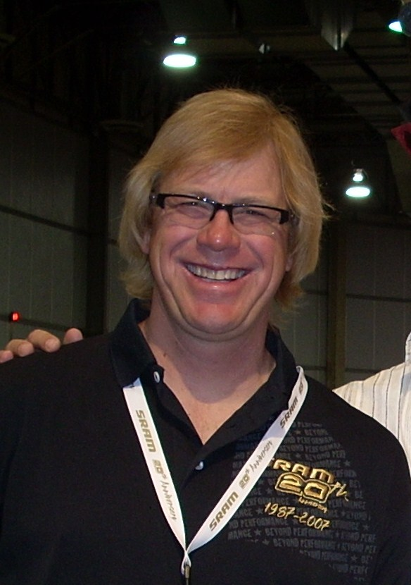 1990 World mountainbike downhill champion, Greg Herbold, Las Vegas.